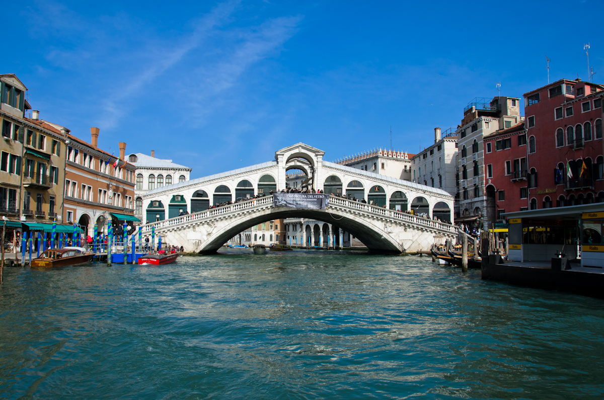 A view of the Rialto Bridge in February 2011